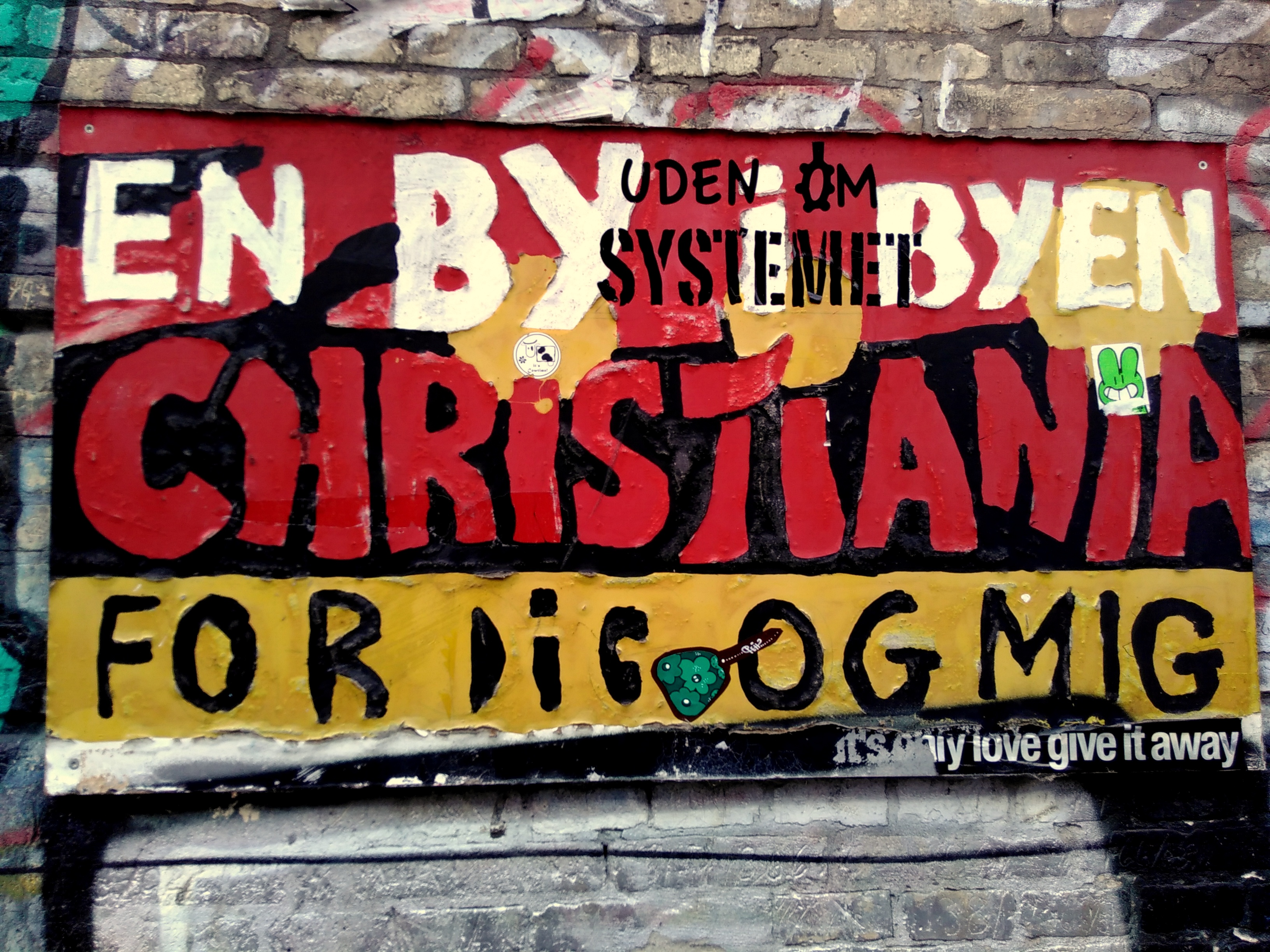 A welcome sign in Freetown Christiania.